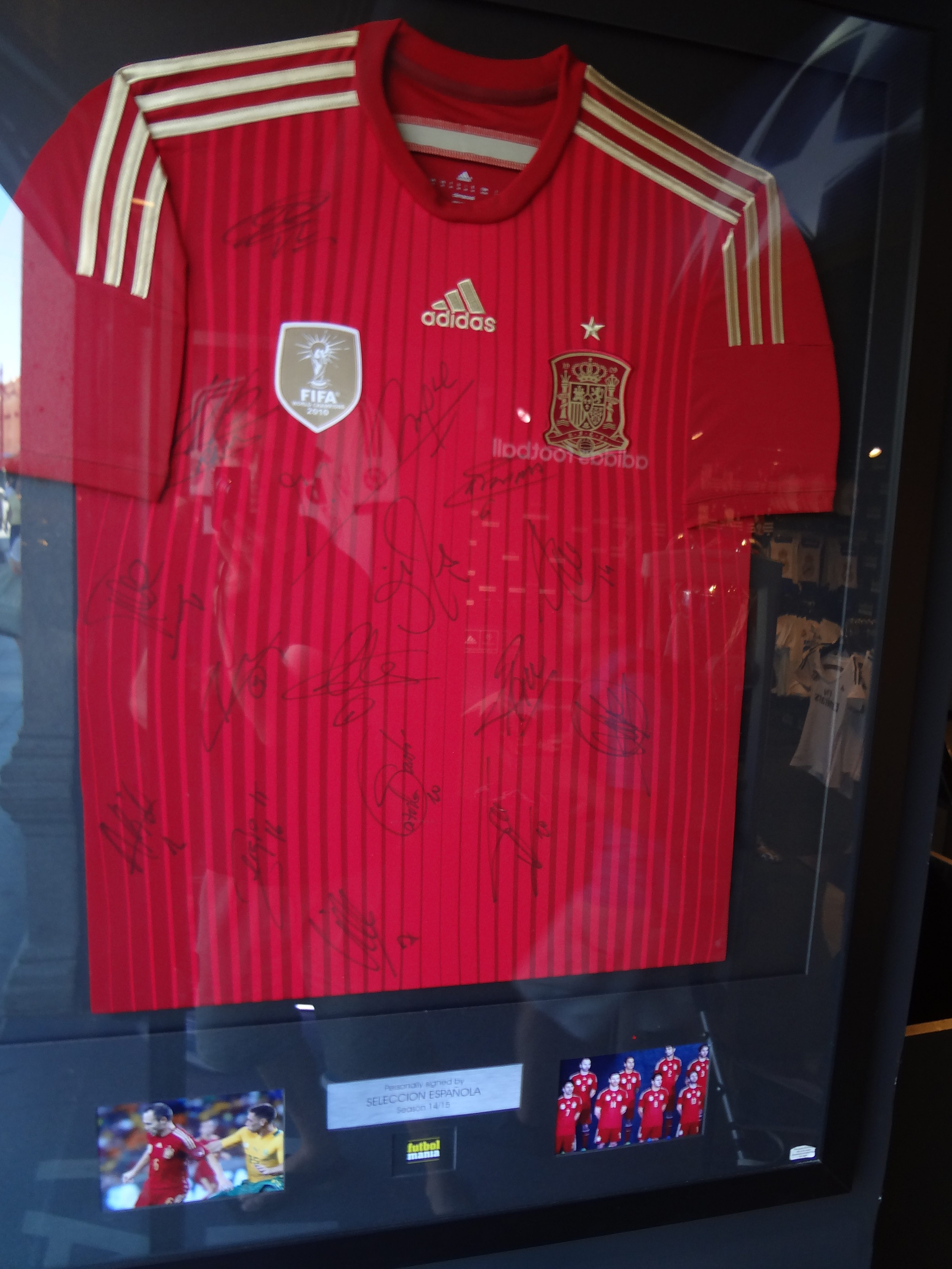 Official Adidas 2010 FIFA World Cup Shirt with Championship FIFA Logo for the Spanish National Team, Champions of the 19th FIFA World Cup in South Africa